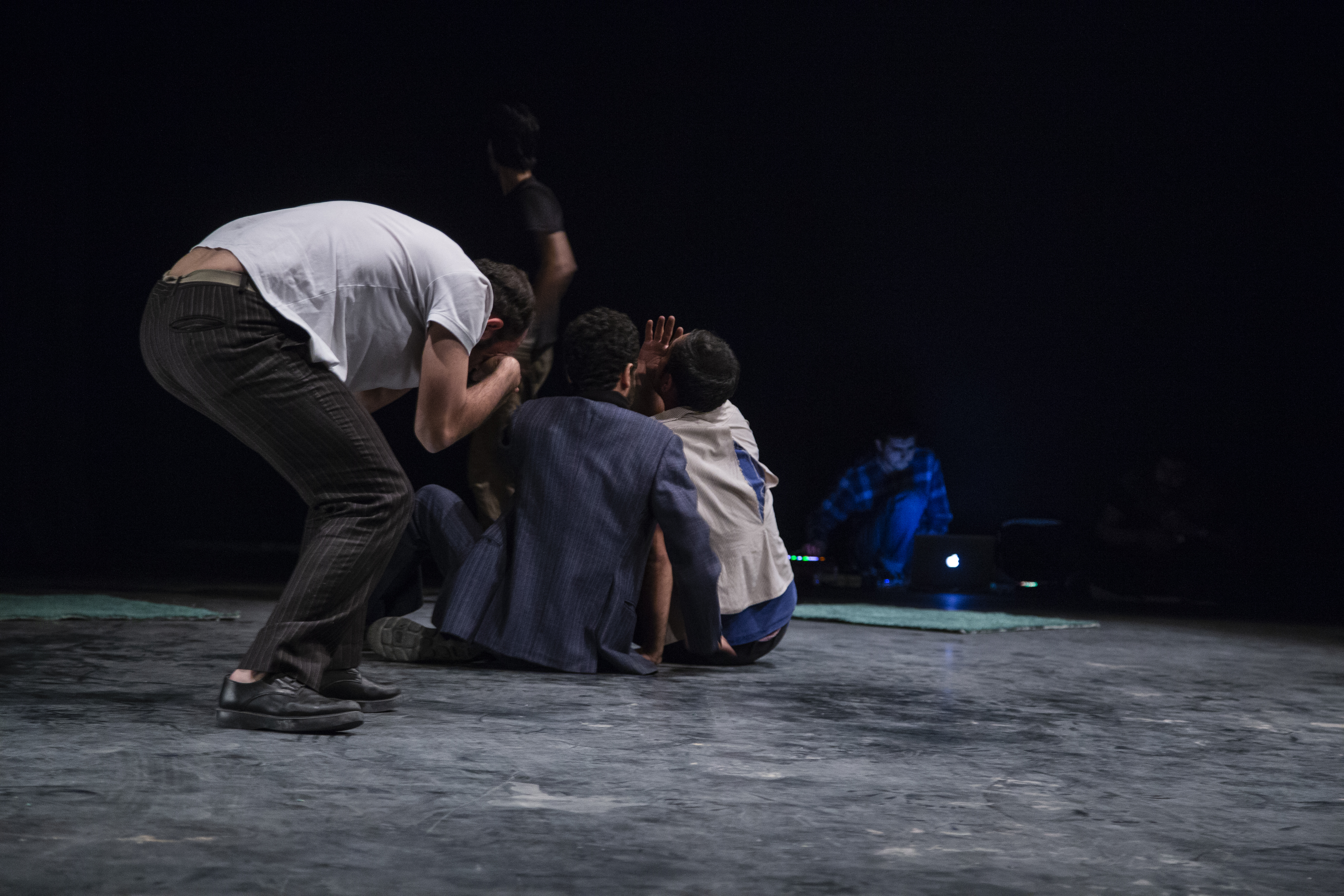 LEFTOVER a display of willful scrupulosity of personal tastes Laboratory Theater Performance from Garage Theater Company ."Leftover" is about all the things that were o‌ne day thrown away. The story of the lightheartedness of four men in the heart of the forest; a forest which no other forest in the world in poetry and myth rivals; Delightful, gloomy and deep.. "Leftover" is displaying willful scrupulosity of personal tastes; trivial useless things that when together can be of use, and disturb the balance of pain at least for a bit. DRAMATURG: EHSAN EZATI - DIRECTOR: ALI MASOUDI - ACTORS: (A-Z) HANI ABDELMAGID, SAEED AKBARZADEH, HABIB ARMAKAN, MAHDI SOLEIMANI - LIGHTS/SPACE: SALAR HOSEINIFAR - SOUND: ALI MASOUDI - PHOTO: MOSTAFA MERAJI - GRAPHICS: HANI ABDELMAGID - CO-ORDINATOR: MAHDI SHAHIN - CREW: HAMED GAENI, ABBAS ZAREI, JAVAD ESMAILY, PARSA KHADEMI